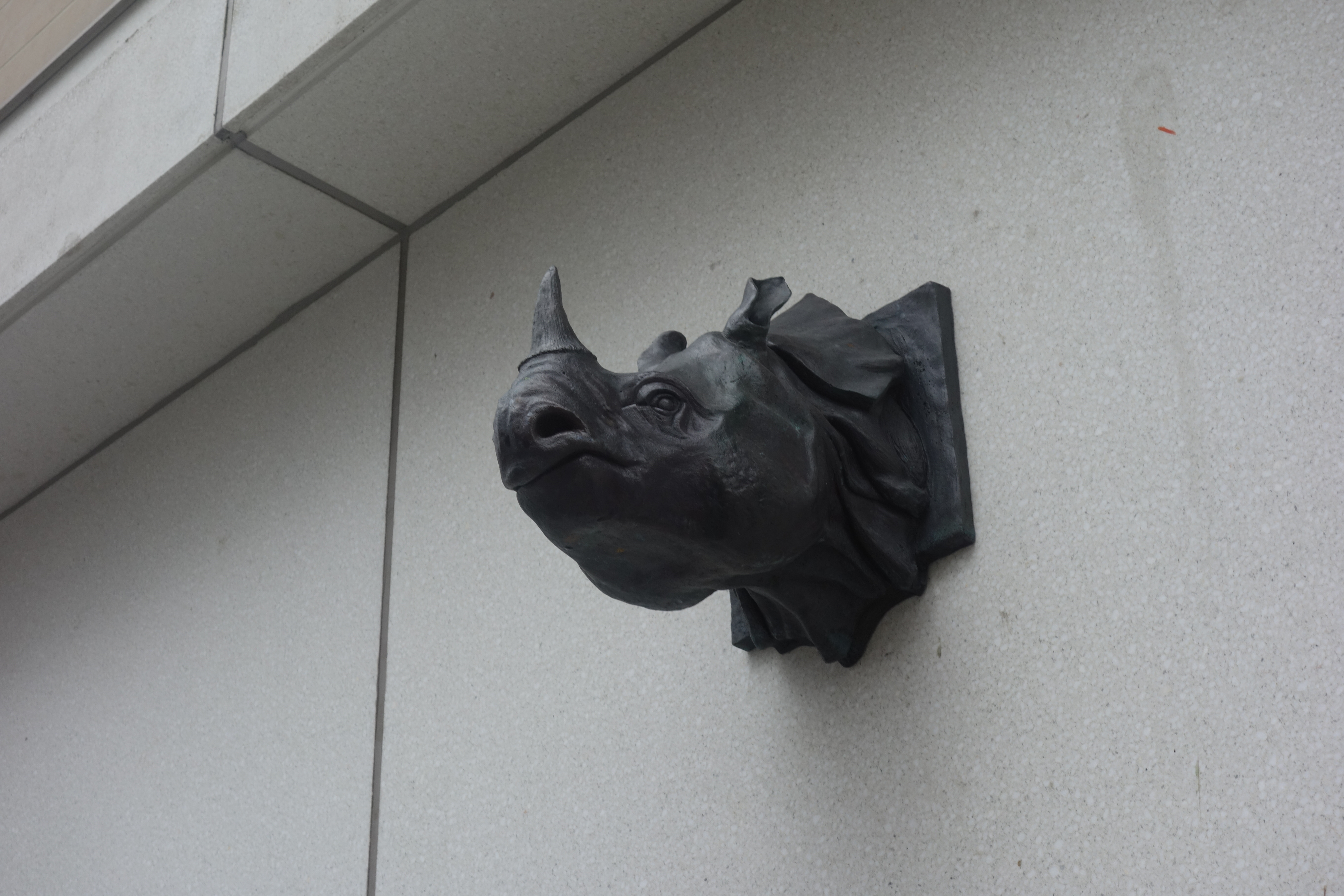 Sculpture of head of a rhinoceros by Jim Haynes (Building of Edinburgh University, 2017)